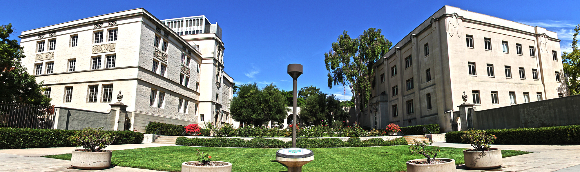 Caltech campus entrance — at 1200 East California Boulevard, in Pasadena, California. On the left is East Norman Bridge Laboratory of Physics, and on the right is the Alfred Sloan Laboratory of Mathematics and Physics.